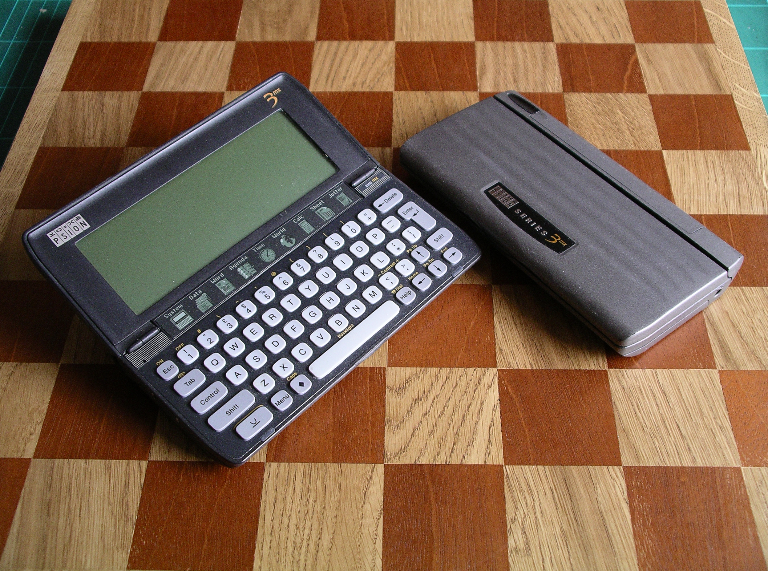 Photo taken by me of two psion 3mx's - one open and one closed. Photo taken on 17 Oct 2006. Photo taken on background of 5 cm squares.